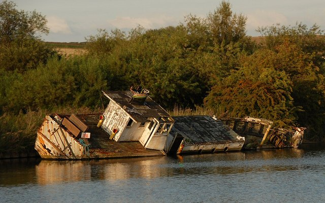 Wreck of MV Chica Wreck of MV Chica near Dutton Locks